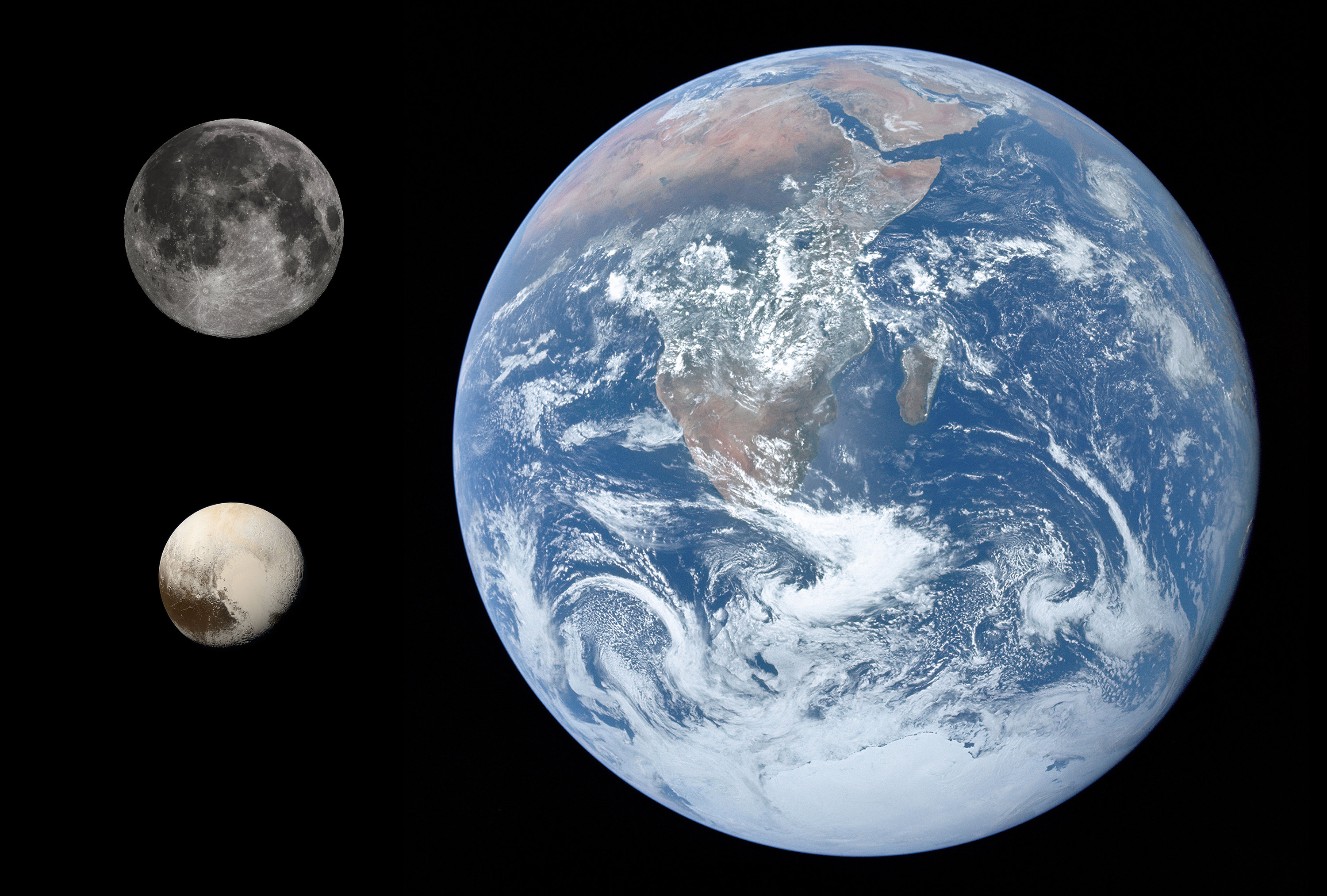 Diameter comparison of Pluto, Moon, and Earth. Scale: Approximately 28.9 km per pixel.